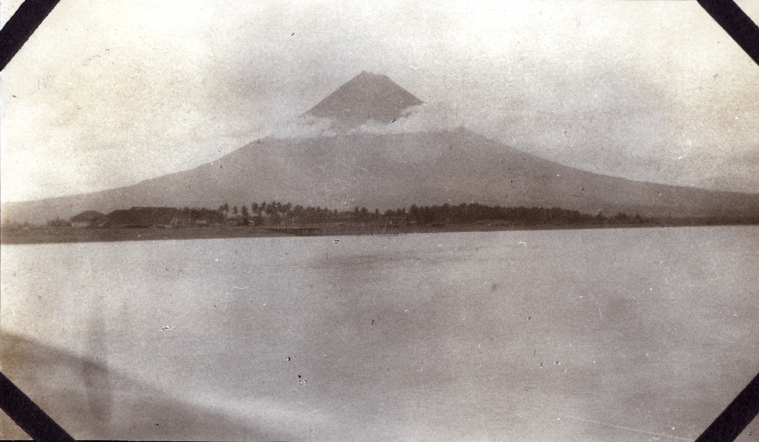 Mount Mayon, an active volcano in the Philippines, elevation 7,952 feet